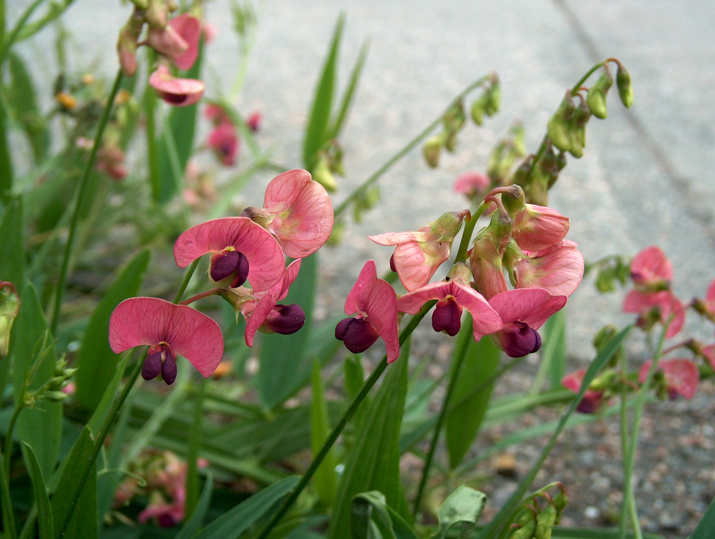 Wood Pea (Lathyrus sylvestris) in Kerava, Finland